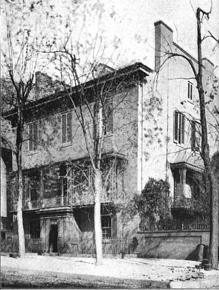 The Benjamin Ogle Tayloe House (also known as the Cameron House, Cream White House, and Little White House) located at 21 Madison Place NW in Washington, D.C., in the United States. Photograph depicts the house in 1886, the year before Senator J. Donald Cameron purchased the property and made extension interior renovations.